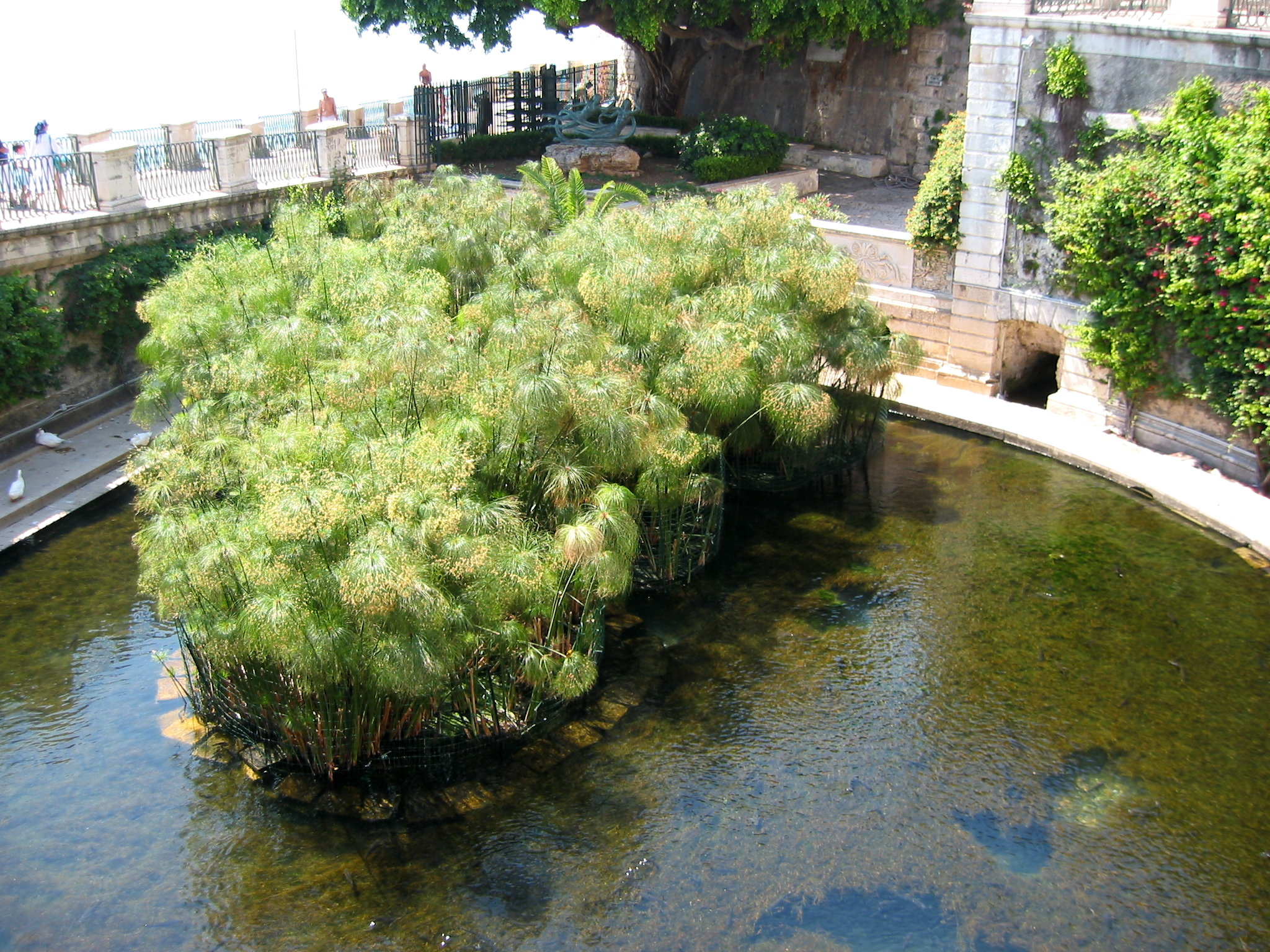 Papyrus plants of the Arethuse's spring ("Fonte Aretusa") in Syracuse, Italy. It is a fresh-water spring curiously springing along the sea shore. Known since the Greek time, it was rearranged in the semi-circular lake which can be admired today (filled with fresh-water fish and papyrus) only in 1847, demolishing the upper part of the Spanish bulwark still surrounding it, which had been built in 1540.